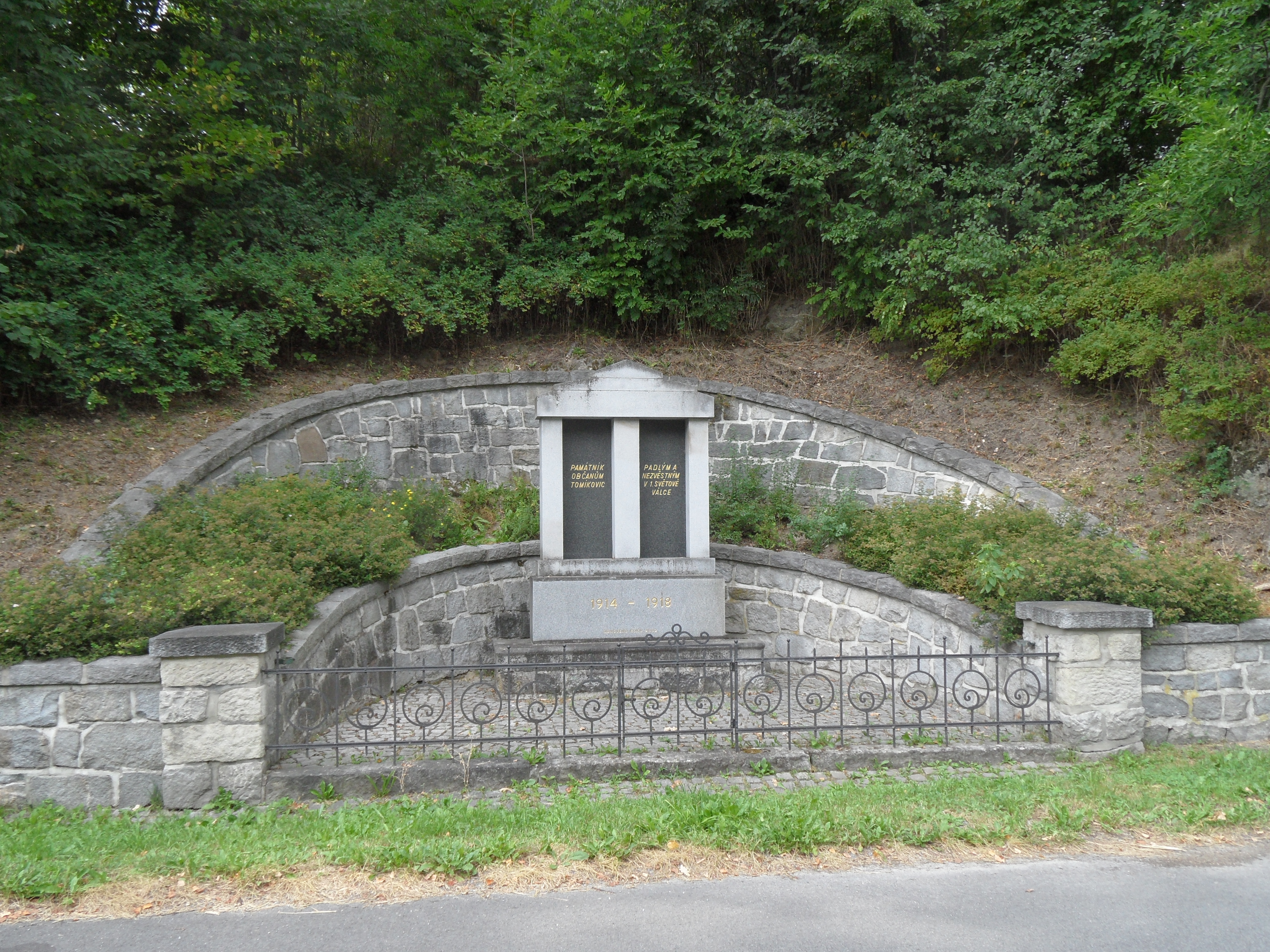 Tomíkovice: Memoria of victims of WW1.. Jeseník District, the Czech Republic.